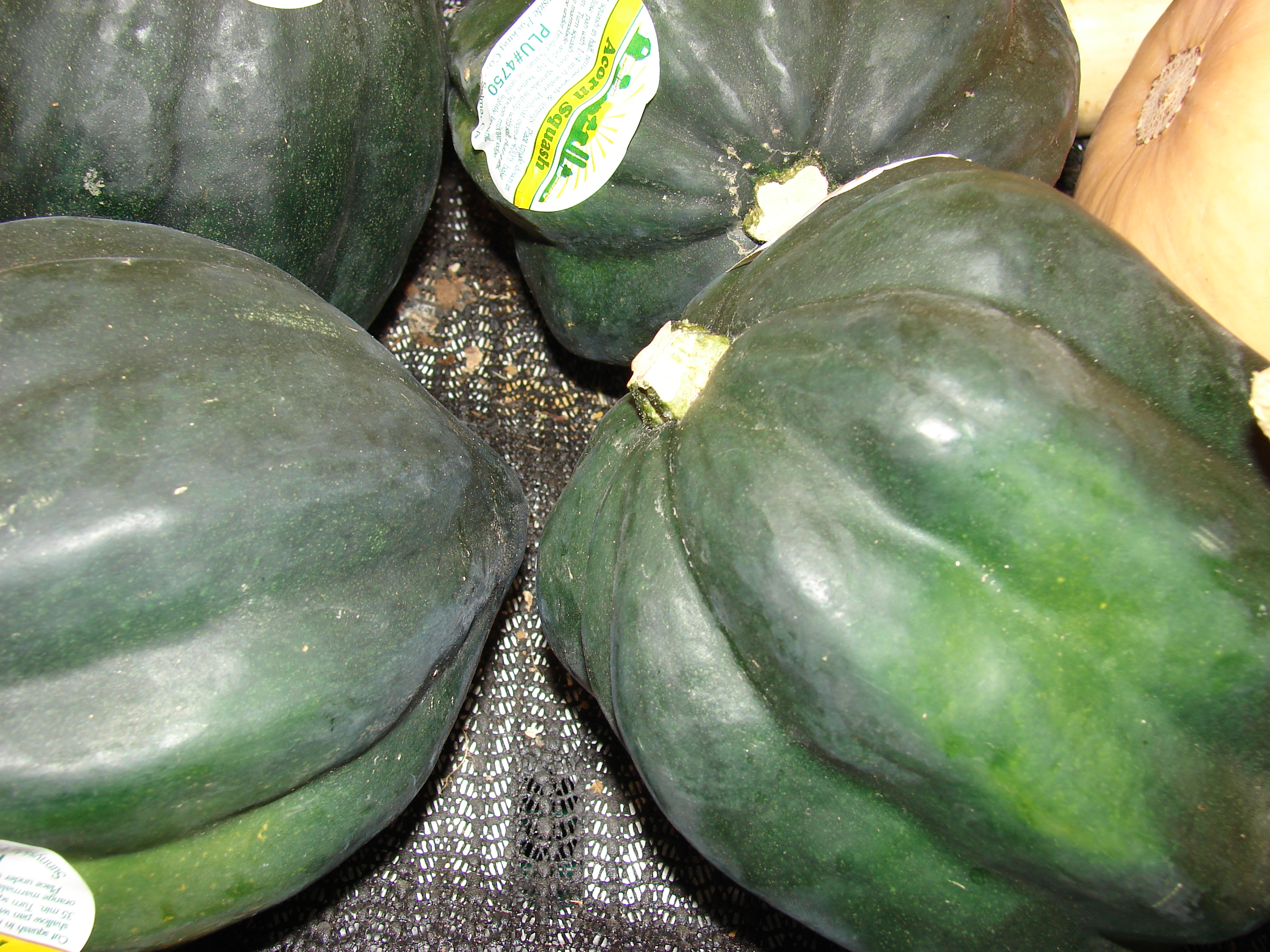 Cucurbita pepo (acorn squash). Location: Maui, Foodland Pukalani